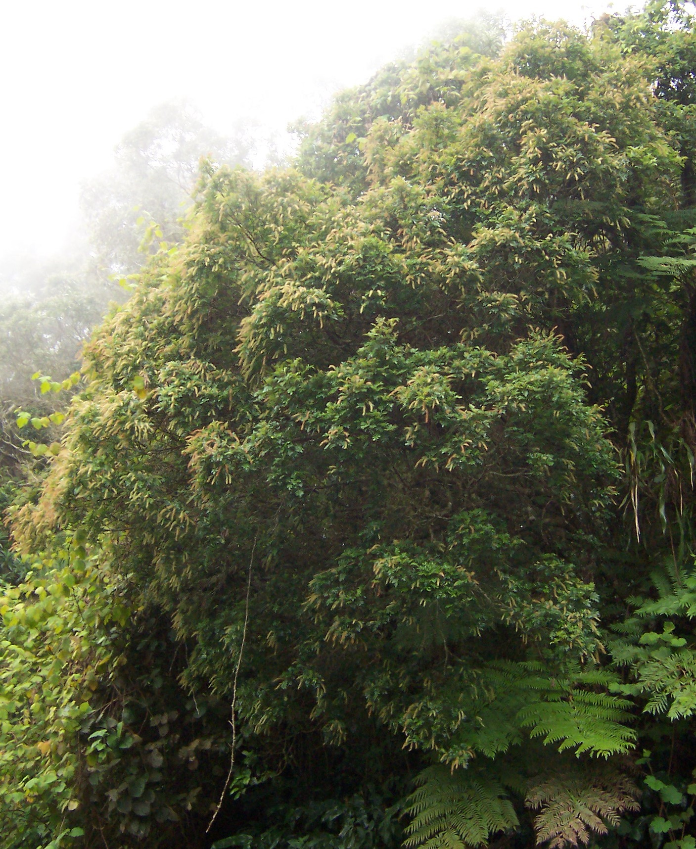 Tan rouge (Weinmannia tinctoria) - tree in blossom Photo : B.navez - 10 NOV 2005 - Réunion Island (Le Tévelave)